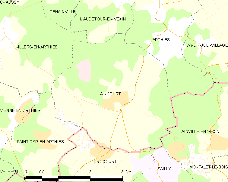 Map of French municipality Aincourt